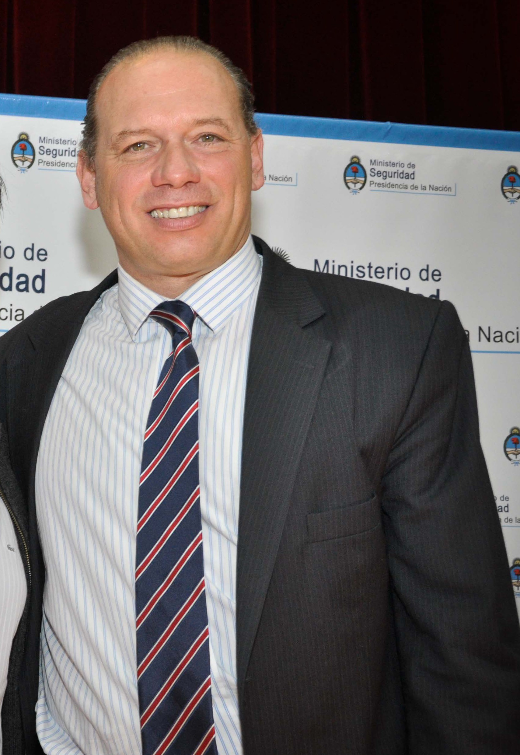 Sergio Berni en entrega de botones antipánico a los edificios.